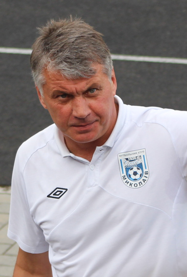 Anatolii Stavka